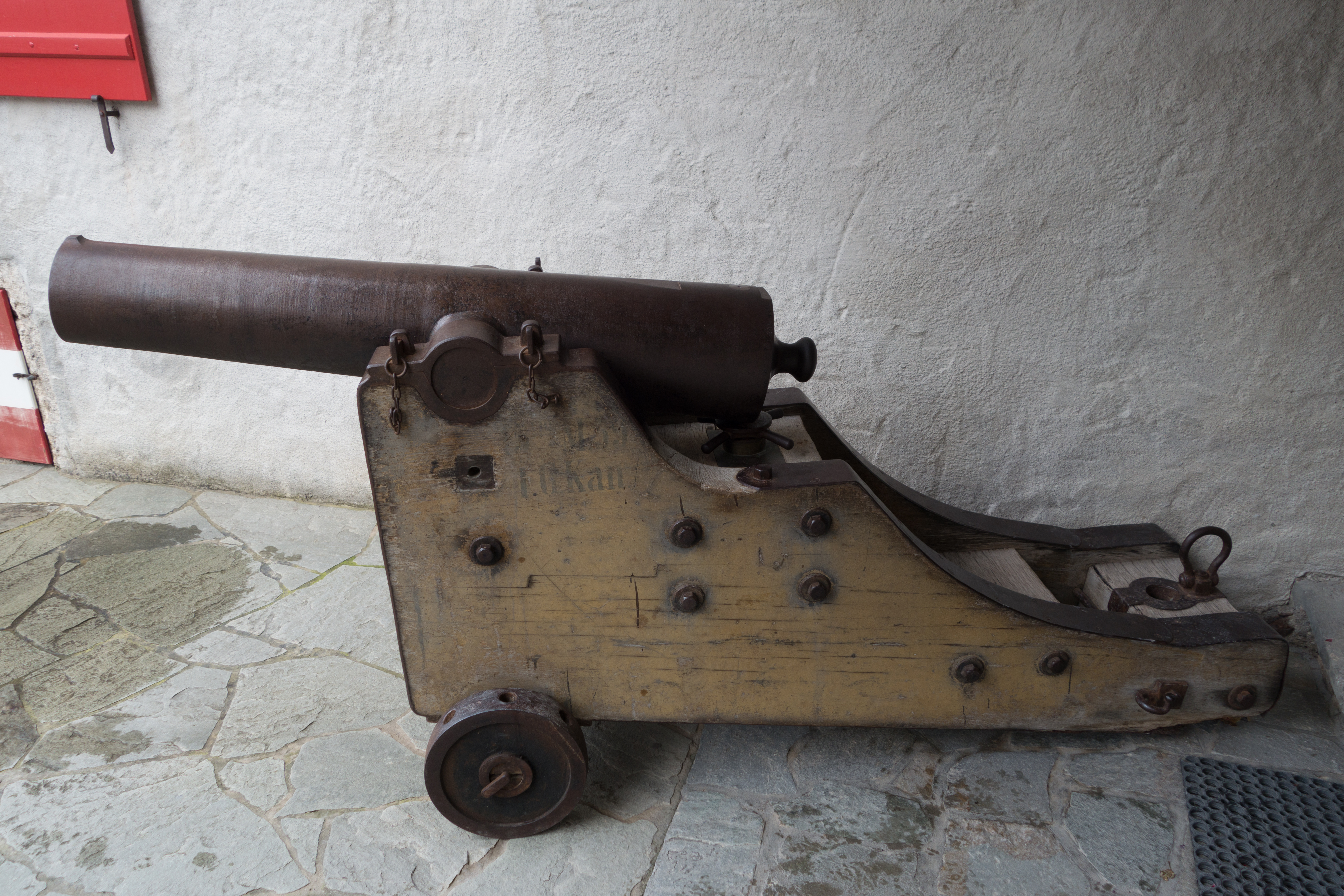 Austria